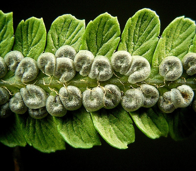 Dryopteris filix-mas